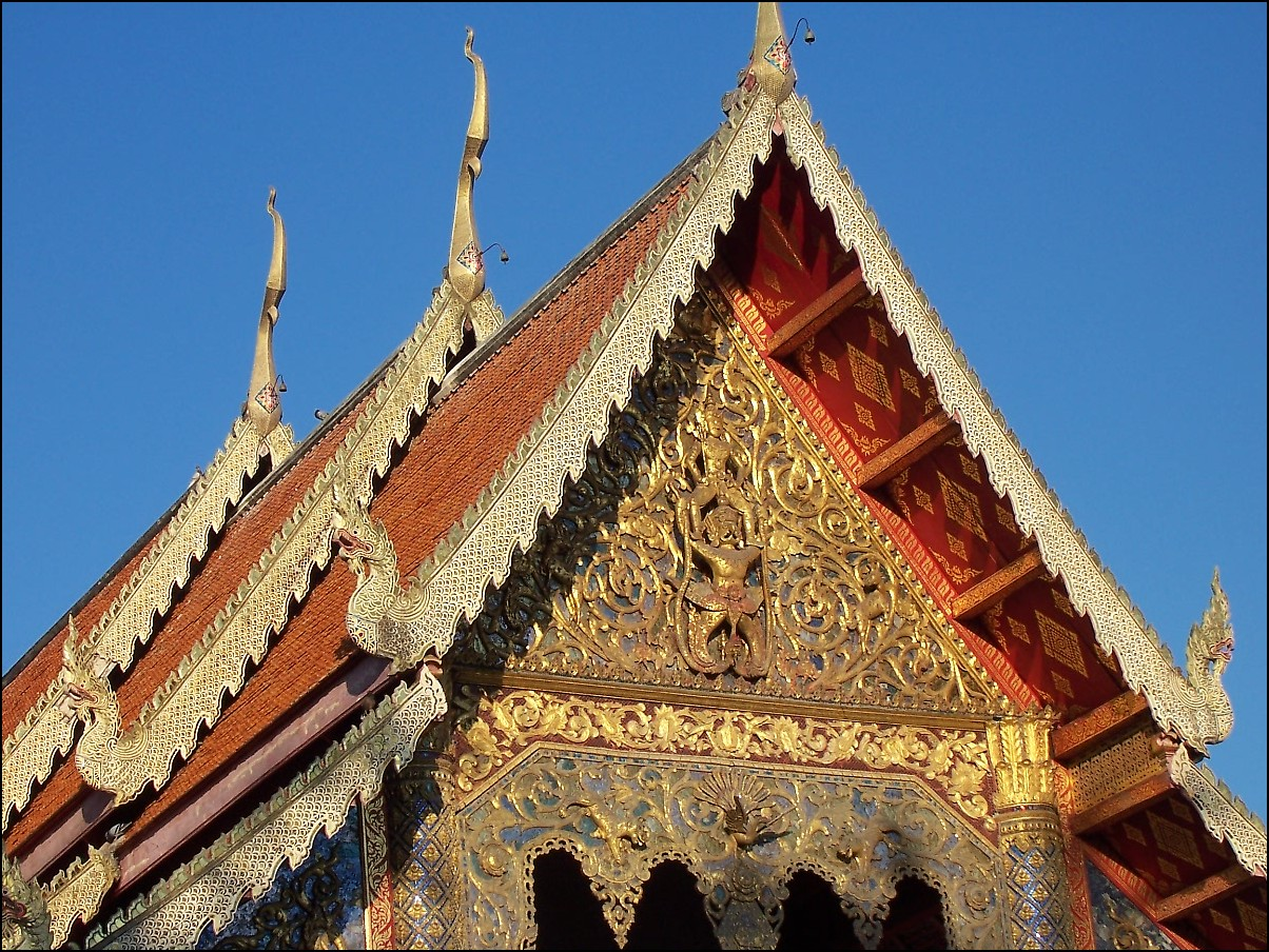 Photograph by Bill Bradley. Feel free to use it, just credit me as the photographer. You can contact me through my website my website billbeee 22:21, 19 March 2007 (UTC)සිංහල: බිල් බ්‍රැඩ්ලි විසින් ලබා ගත් ඡායාරූපයකි. එය භාවිතා කිරීමට නොපැකිලෙන්න, නමුත් ඡායාරූපය ගත් තැනැත්තේ වශයෙන් මට කතෘ සම්මානය දෙන්න. මගේ වෙබ් අඩවිය මගේ වෙබ් අඩවිය ඔස්සේ මා හා සම්බන්ධ වීමට ඔබට හැකිය. billbeee 22:21, 19 මාර්තු 2007 (UTC)